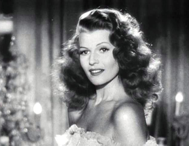 Rita Hayworth in the Gilda trailer